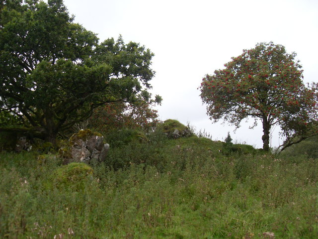 Auchencloigh castle I'm not sure whether this is the remains of the castle or the farmhouse. The Explorer map shows the castle (remains of) but doesn't show the farmhouse at all. The trees are oak and rowan.